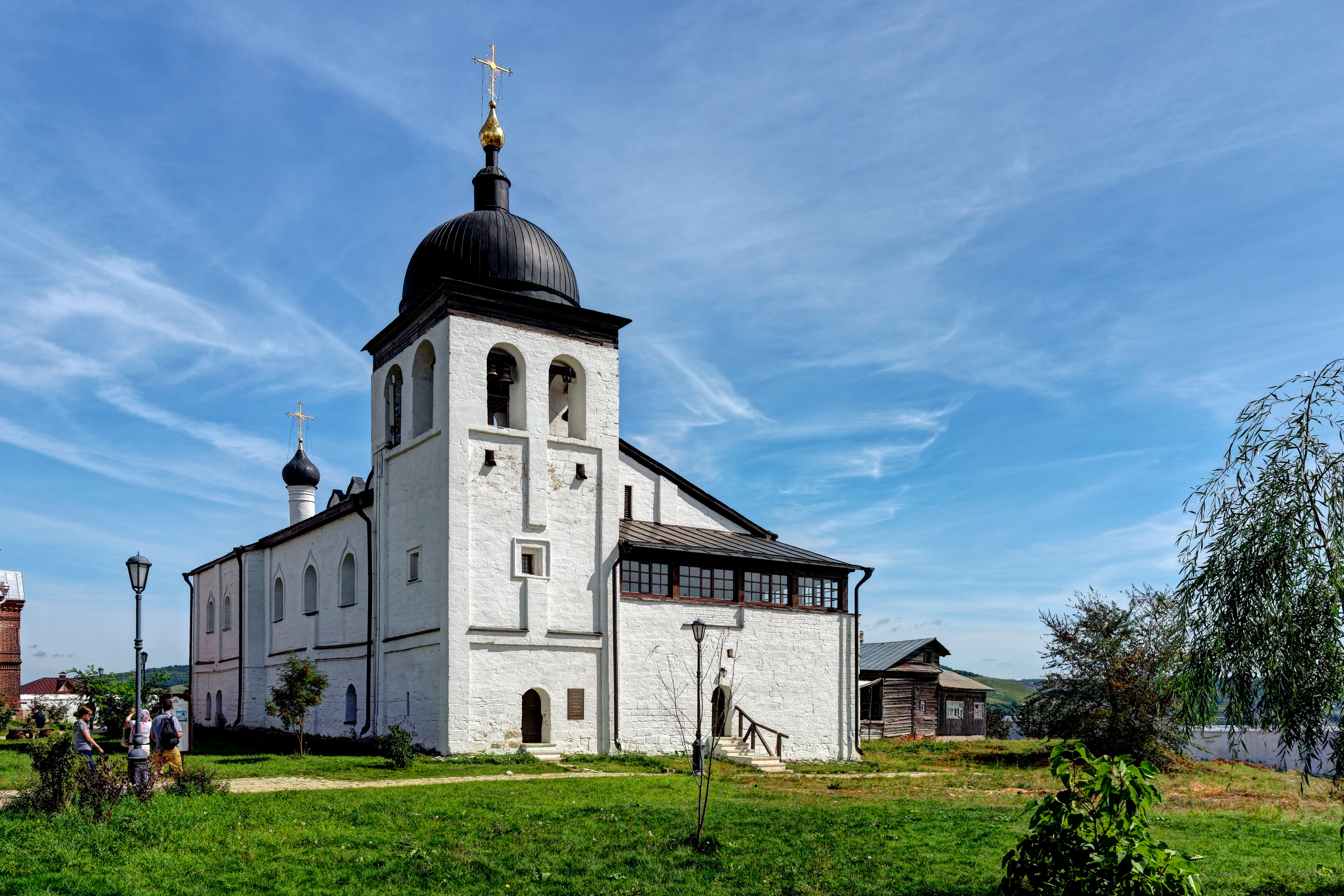 Sviyazhsk. Ioanno-Predtechensky Convent. Church of Saint Sergius